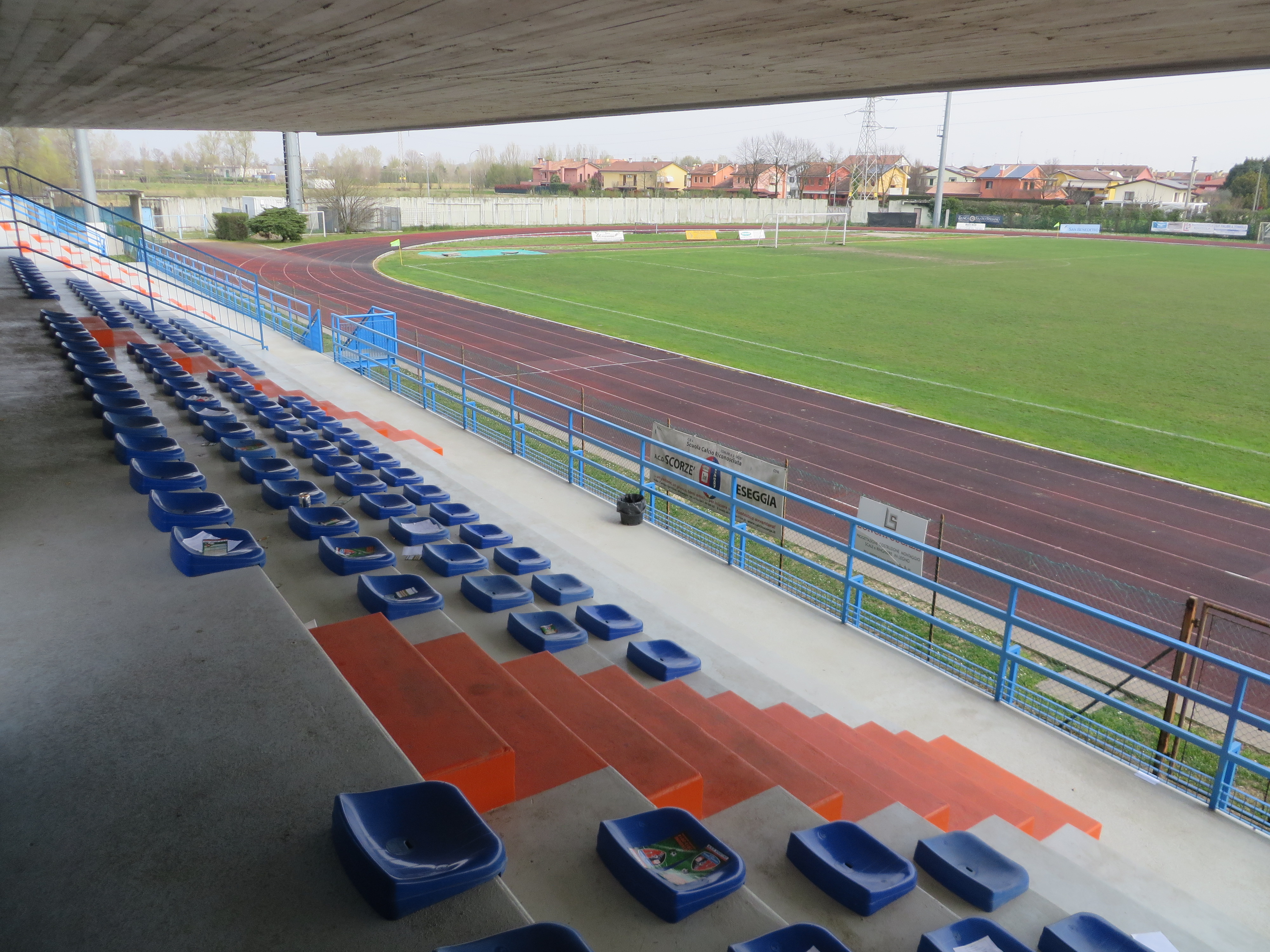 Tribuna, campo e pista dello Stadio Comunale di Scorzè